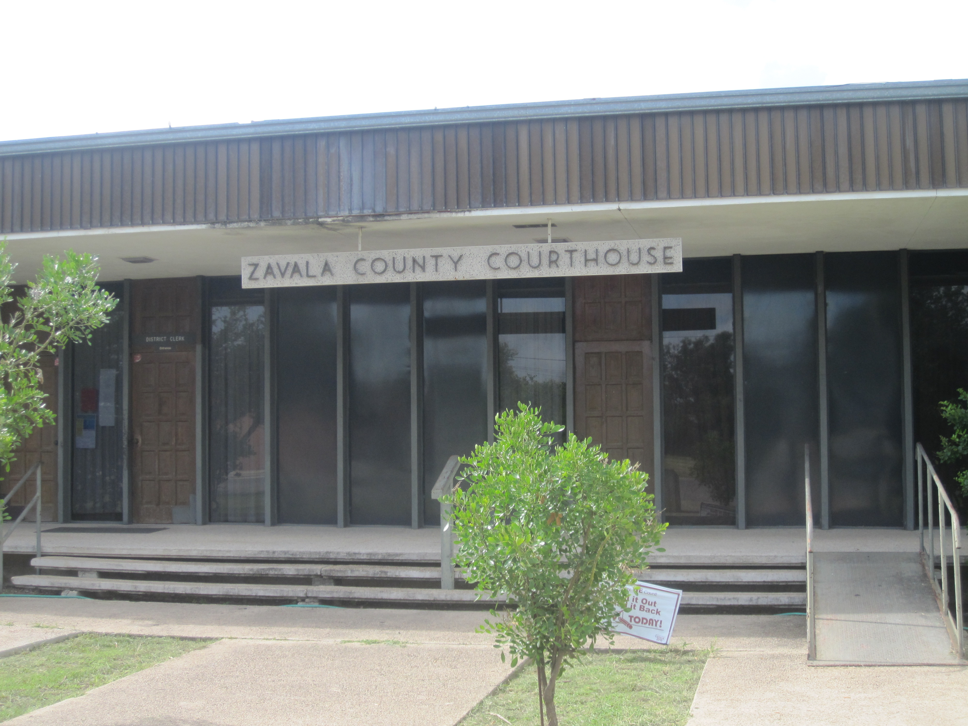 Zavala County Courthouse. I took photo with Canon camera in Crystal City, TX.